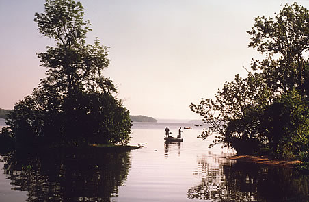 Photo by USDOI, NPS Source @